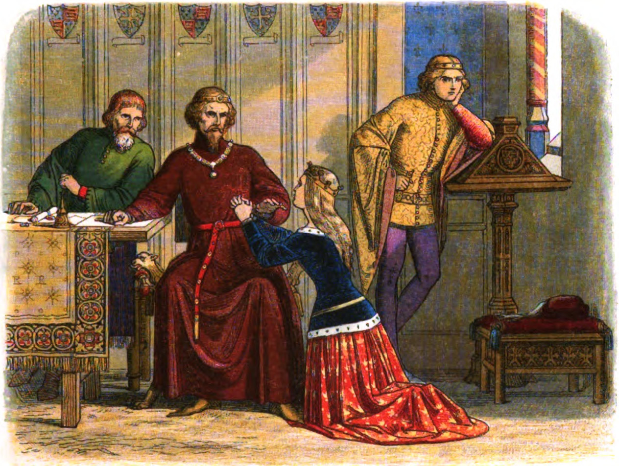 Queen Anne pleads with the Earl of Arundel to let off Simon de Burley.